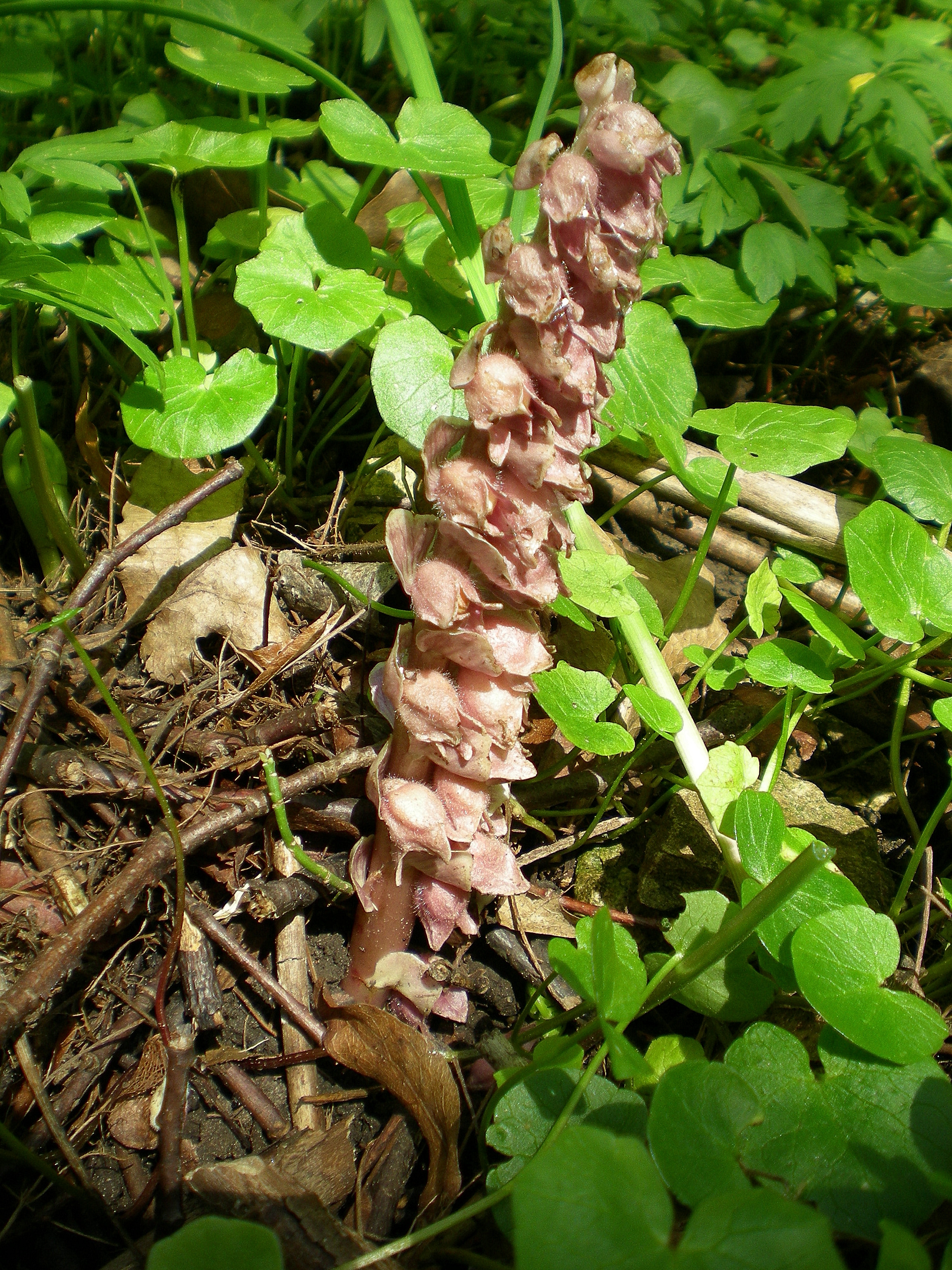 Lathraea squamaria (picture shot in Latvia)